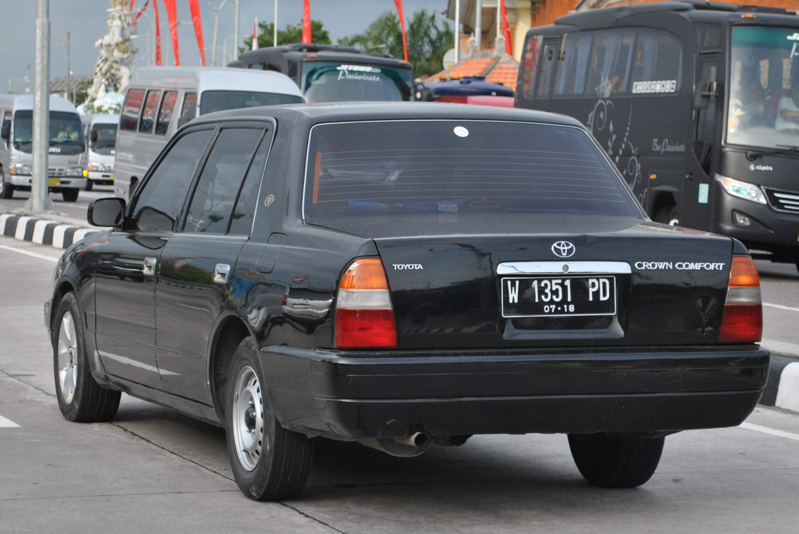 Very rare Sidoarjo-registered Toyota Crown Comfort, spotted and photographed at Simpang Dewa Ruci, Kuta, Badung Regency, Bali. I have no idea how the owner get the car, and surprisingly this is personal car, not taxi, as usually we see at many countries like Singapore.